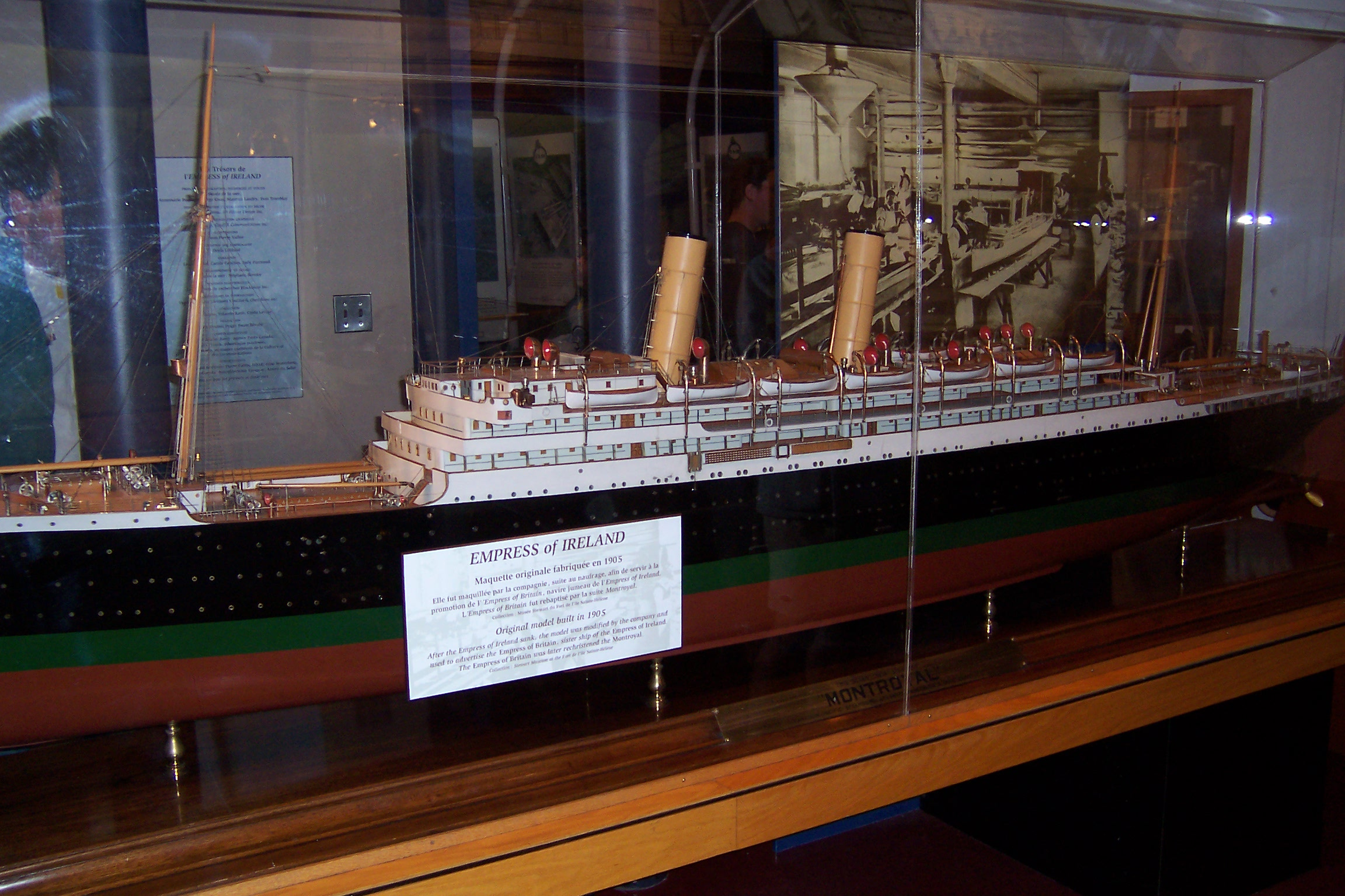 Scale model of the Ocean liner RMS Empress of Ireland in display at the Site historique maritime de la Pointe-au-Père in Rimouski, near the place where he sunk